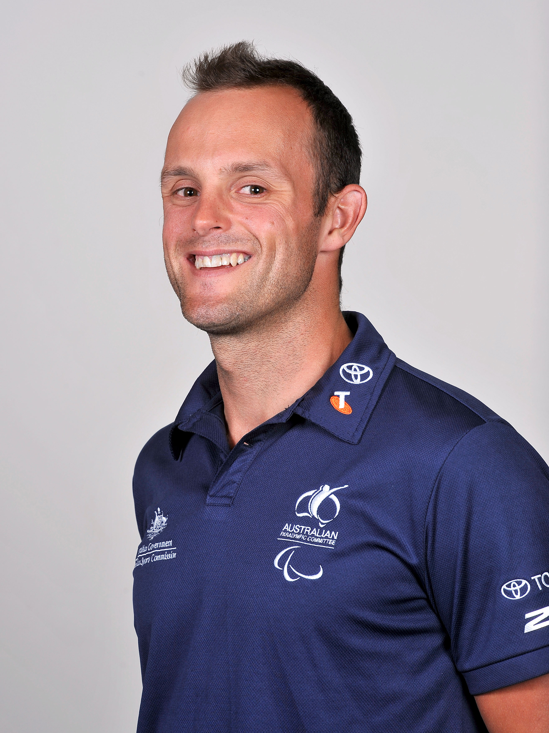 Portrait of Australian cyclist Mark Jamieson, 2012 Australian Paralympic (shadow) Team athlete